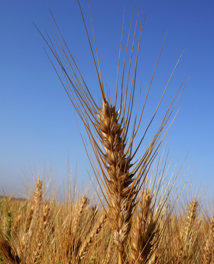 ... lift up your eyes and look at the fields, for they are already white for harvest" John 4:35